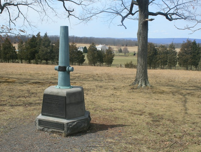 3rd corps (A.P.Hills's) headquarters at Gettysburg (white farm) and a historical marker